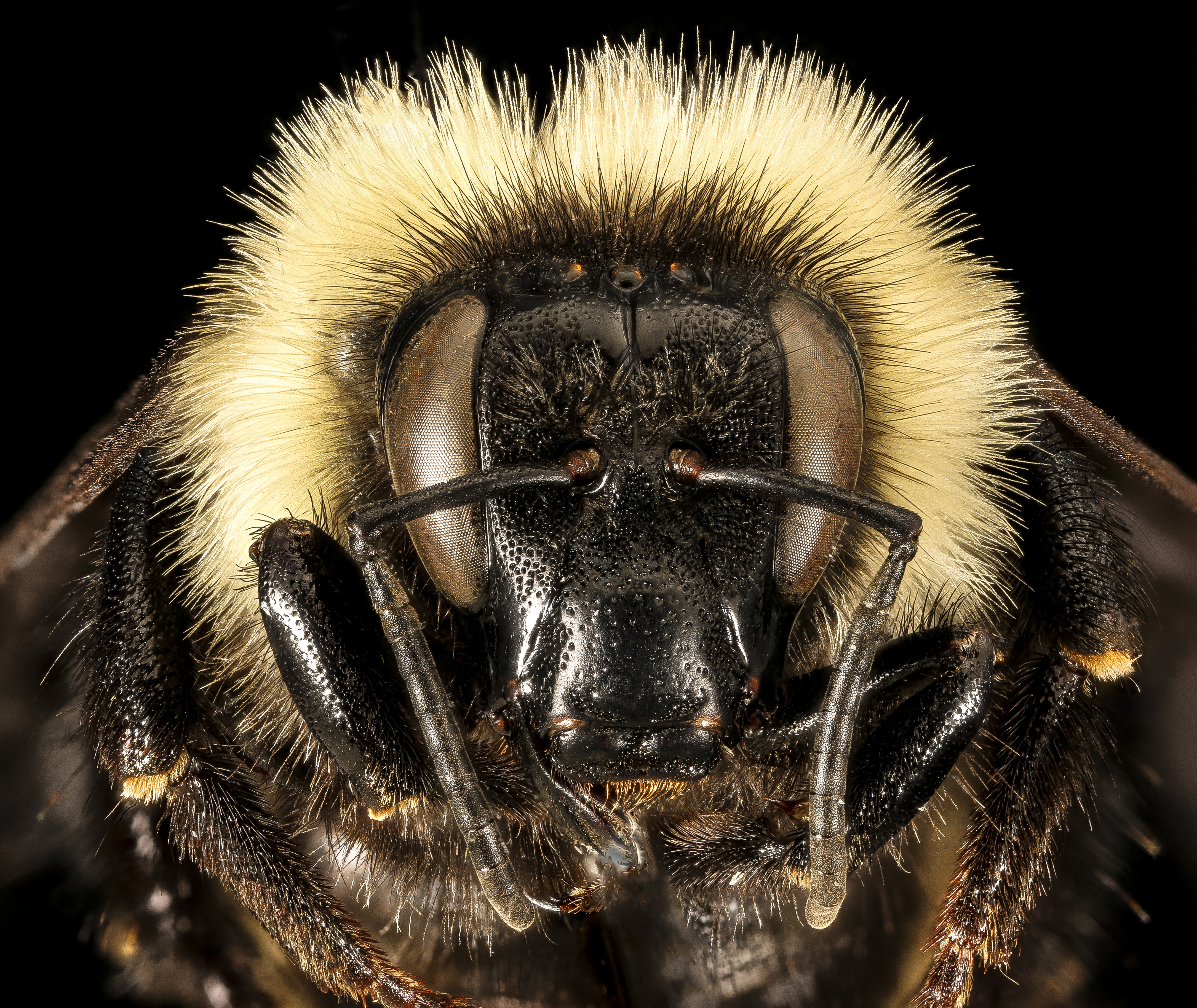 From the U.S. National Arboretum comes the now relatively uncommon Bombus fervidus. A species in delcine, but still present and how nice to have this one present right in Washington D.C. Pictures by Ashleigh Jacobs. 14:56, 17 May 2016 (UTC)14:56, 17 May 2016 (UTC) 0 14:56, 17 May 2016 (UTC)14:56, 17 May 2016 (UTC) All photographs are public domain, feel free to download and use as you wish. Photography Information: Canon Mark II 5D, Zerene Stacker, Stackshot Sled, 65mm Canon MP-E 1-5X macro lens, Twin Macro Flash in Styrofoam Cooler, F5.0, ISO 100, Shutter Speed 200 Beauty is truth, truth beauty - that is all Ye know on earth and all ye need to know " Ode on a Grecian Urn" John Keats You can also follow us on Instagram - account = USGSBIML Want some Useful Links to the Techniques We Use? Well now here you go Citizen: Art Photo Book: Bees: An Up-Close Look at Pollinators Around the World Basic USGSBIML set up: USGSBIML Photoshopping Technique: Note that we now have added using the burn tool at 50% opacity set to shadows to clean up the halos that bleed into the black background from "hot" color sections of the picture. PDF of Basic USGSBIML Photography Set Up: ftp://ftpext.usgs.gov/pub/er/md/laurel/Droege/How%20to%20Take%20MacroPhotographs%20of%20Insects%20BIML%20Lab2.pdf Google Hangout Demonstration of Techniques: or Excellent Technical Form on Stacking: Contact information: Sam Droege 301 497 5840